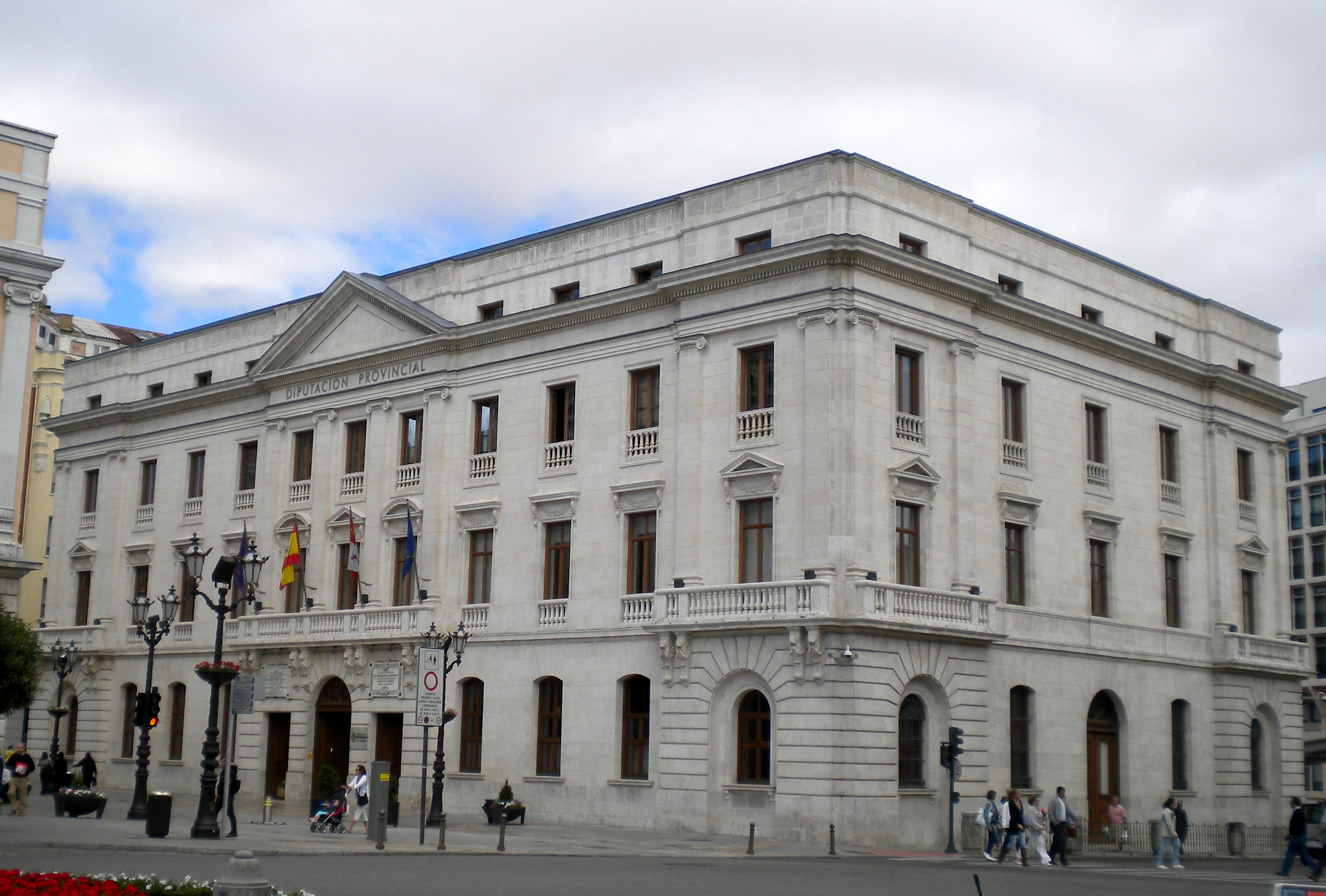 Palace of the County council of Burgos (Spain)